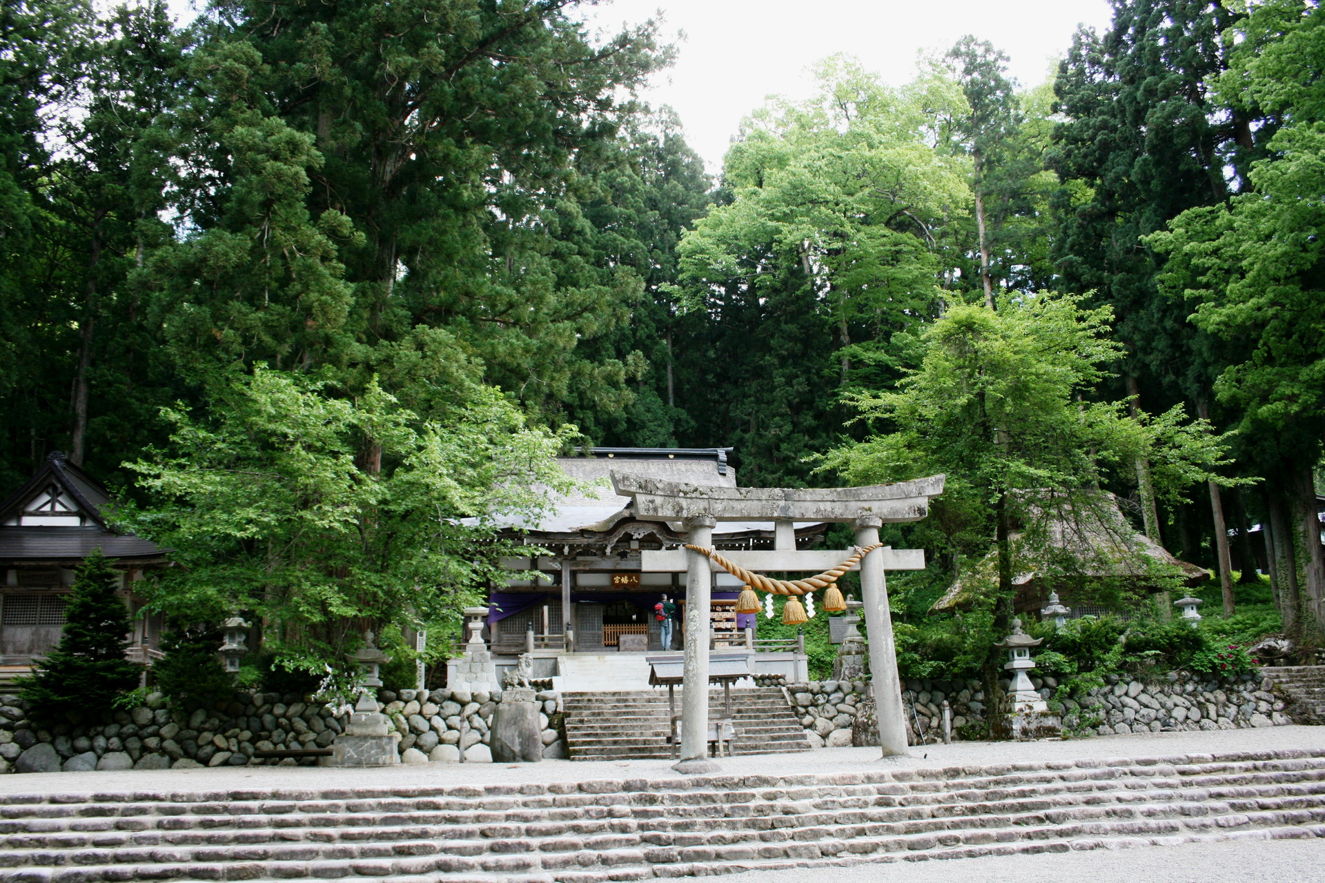 Shirakawa-hachiman jinja